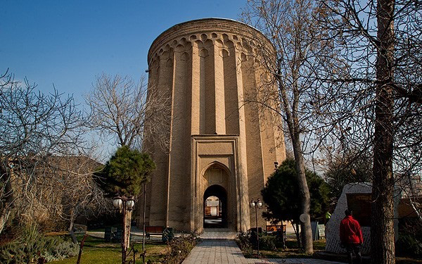 Tughrul Tower - 6 January 2013. main album